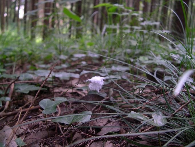 Parasite moth Epipomponia nawai (Lepidoptera:Epipyropidae). A cocoon attached to a grass near the ground. Yokohama, kanagawa, japan.